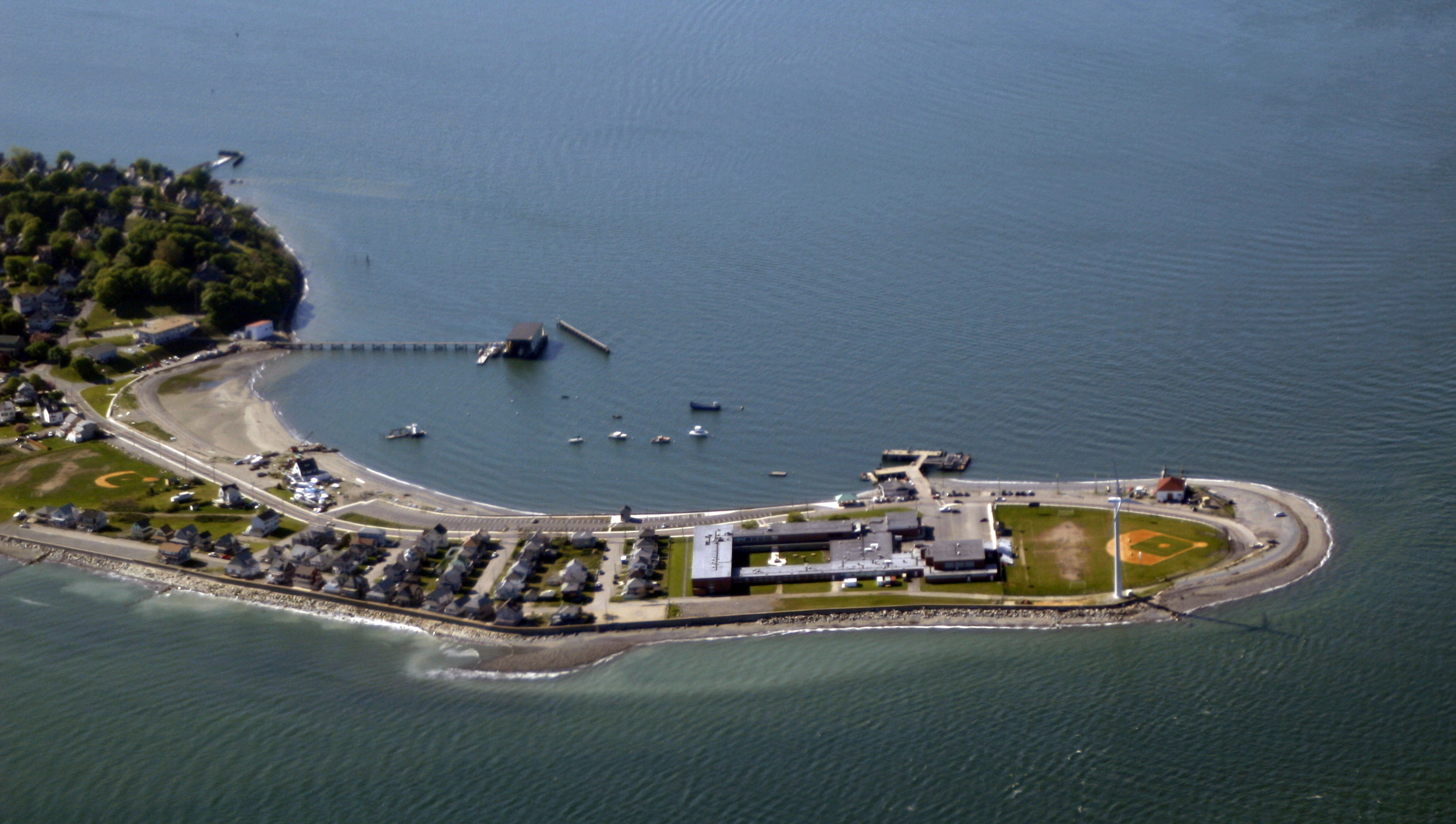 Windmill Point (a.k.a. Pemberton Point) at the end of Hull. Coast Guard Point is at that pier sticking out. Hull High School is here too. The Hull 1 wind turbine is visible; installed in 2001; Vestas V47-660 kW.